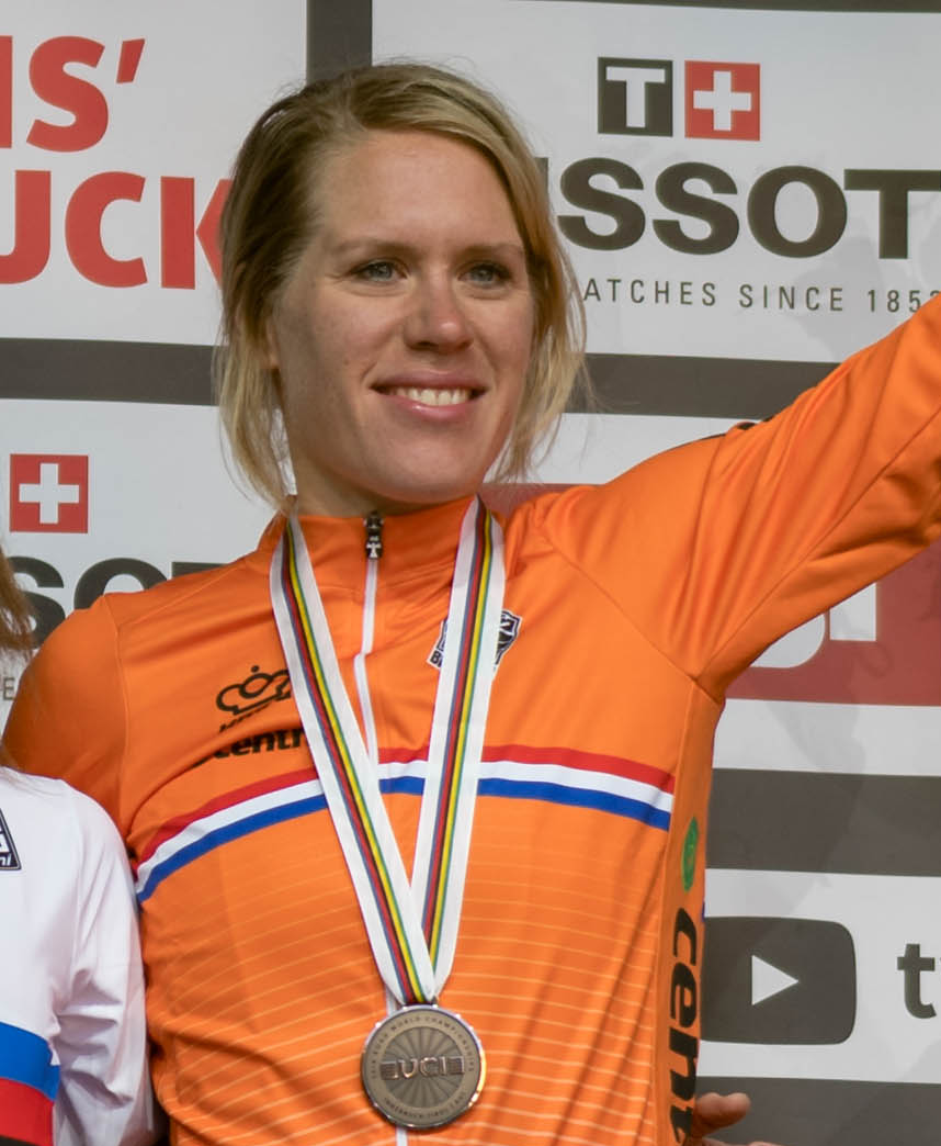 2018 UCI Road World Championships Innsbruck/Tirol Women Elite Individual Time Trial. Picture shows: Award Ceremony with Anna van der Breggen of the Netherlands, Annemiek van Vleuten of the Netherlands and Ellen van Dijk of the Netherlands